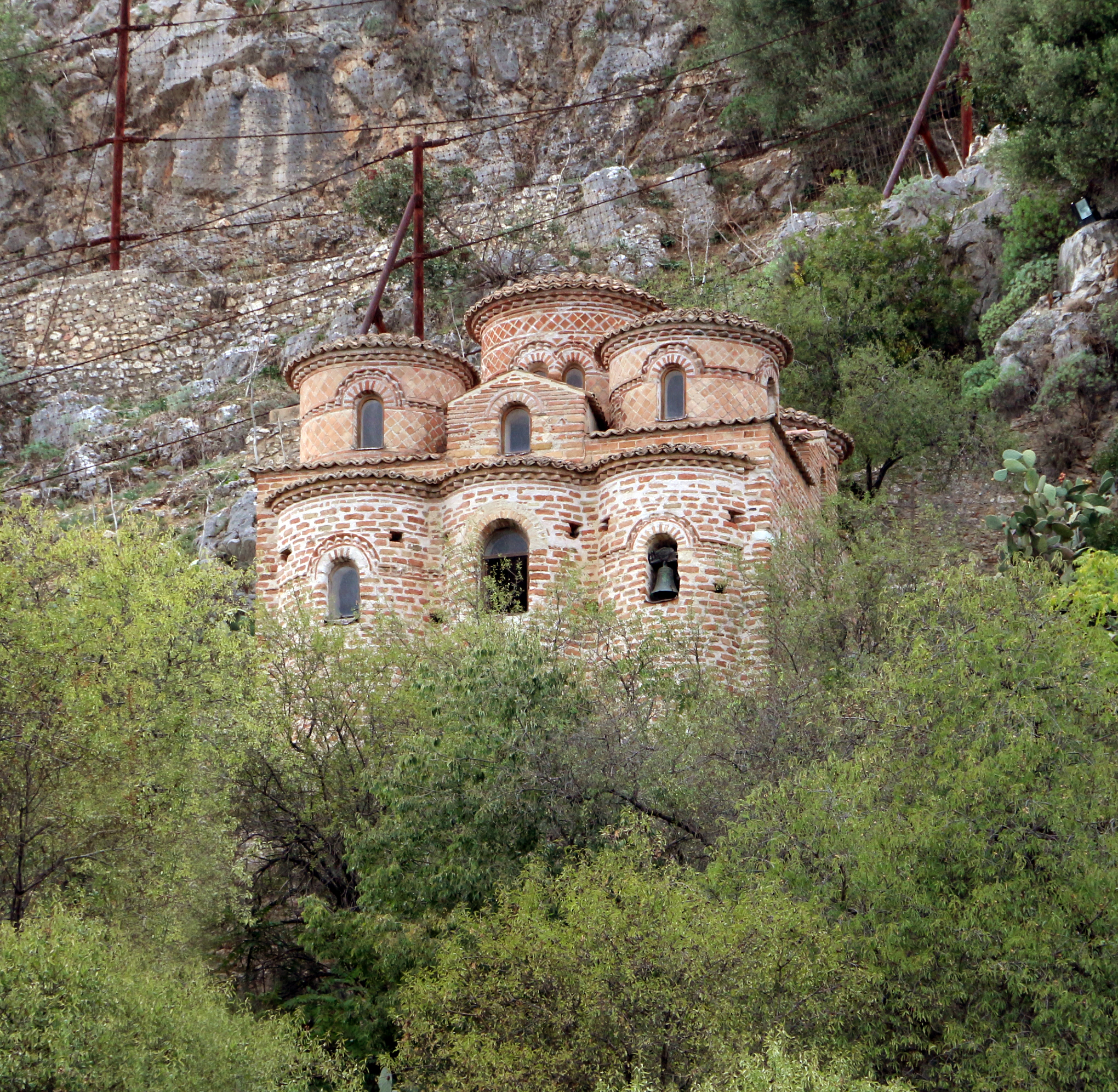 Cattolica di Stilo